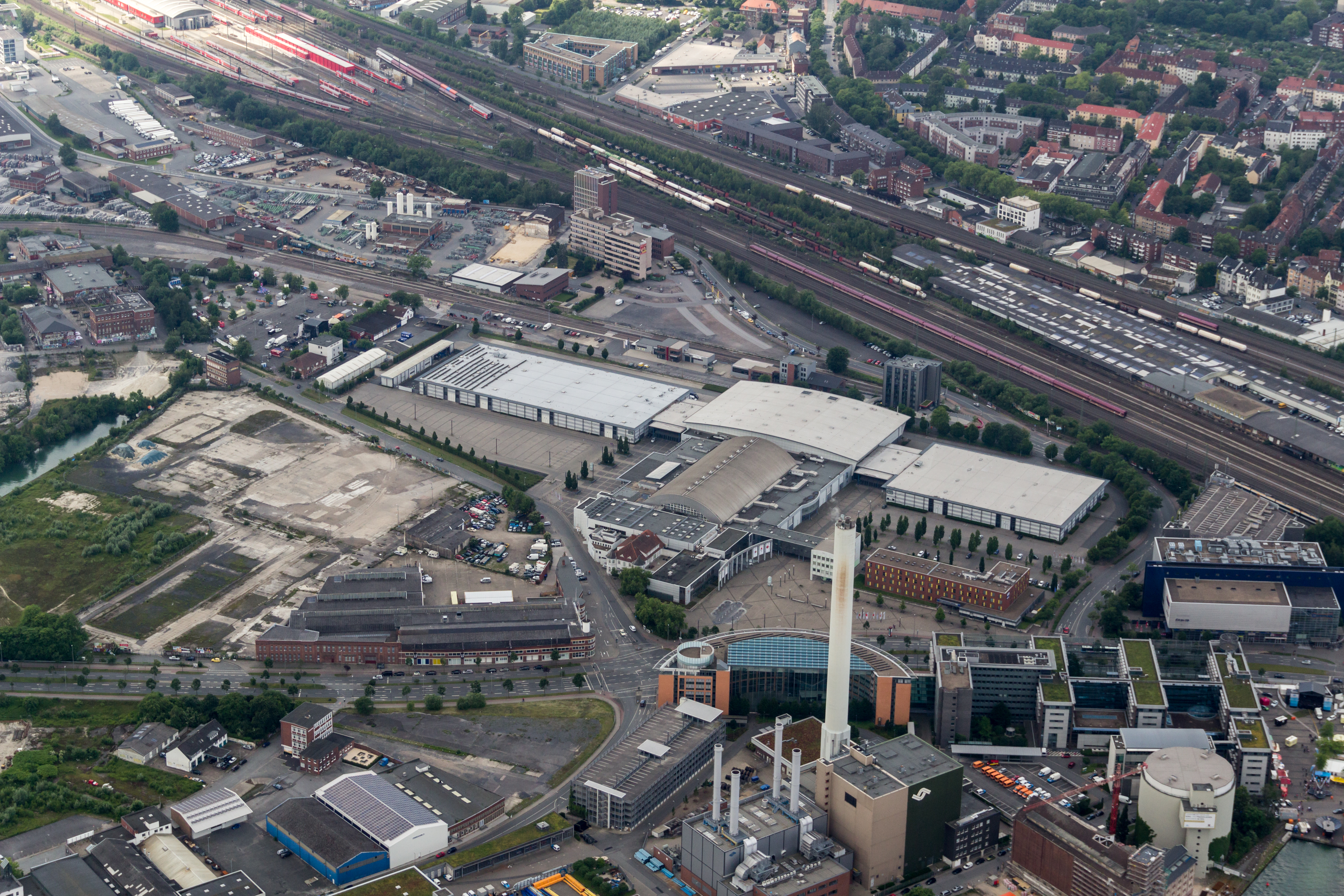 Messe- and Congress-Centrum “Halle Münsterland”, Münster, North Rhine-Westphalia, Germany